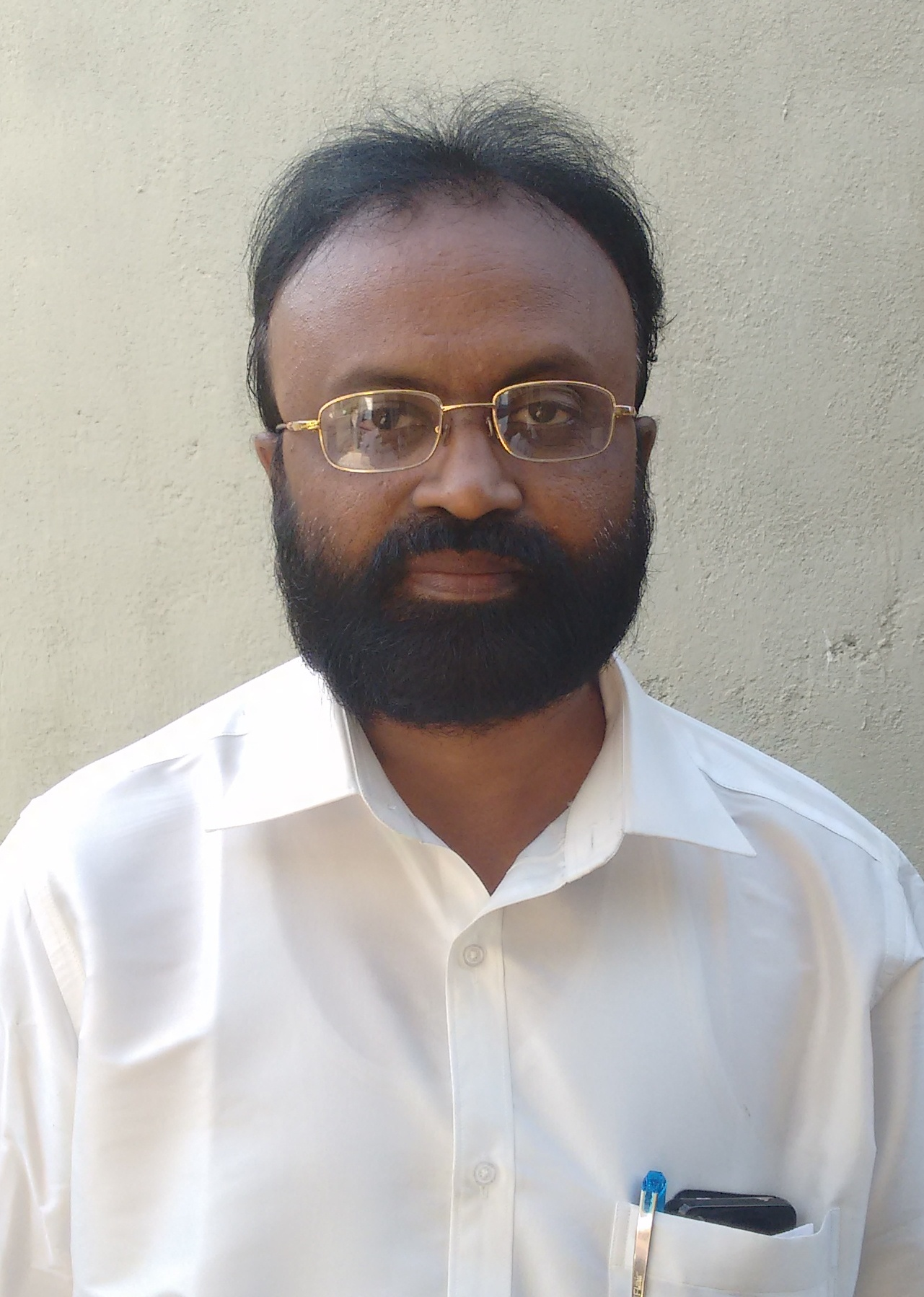 Mani. Maaran Tamil Pandit மணி. மாறன் தமிழ்ப்பண்டிதர்